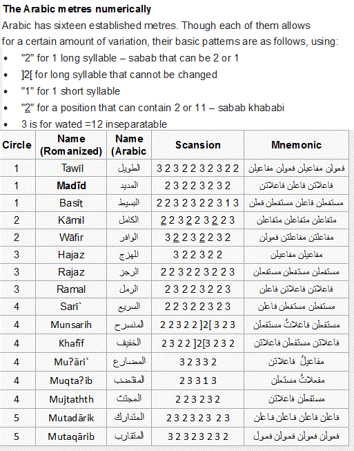 Arabic prosody is almost a mathematical program.